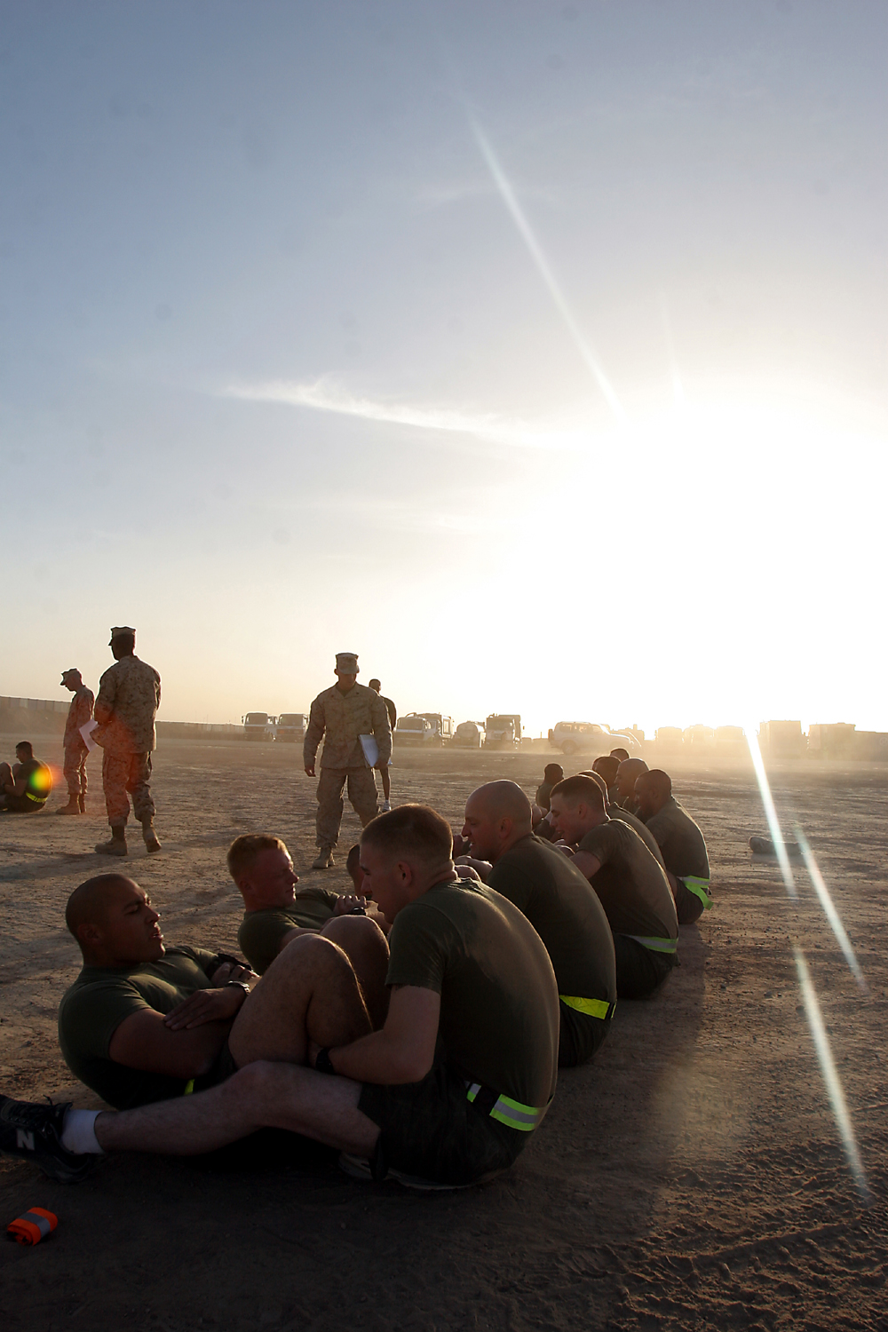 U.S. Marines perform situps during a physical fitness test March 17, 2010, at Camp Leatherneck, Afghanistan. The Marines were students in the first iteration of the Marine Corps Corporals Course held at the base. The course was designed to provide Marine corporals with the education and leadership skills necessary to lead Marines.